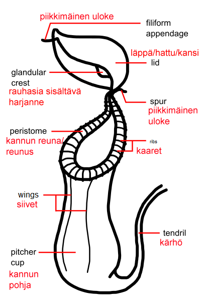 Upper Nepenthes pitcher anatomy in Finnish.